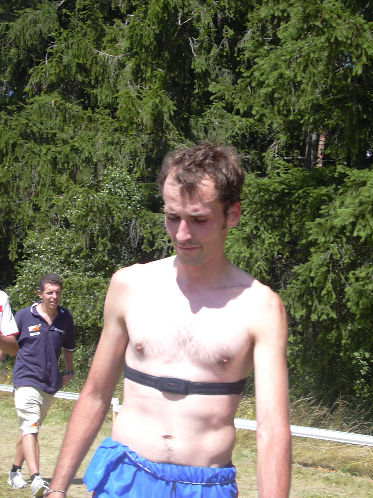 World Orienteering Championships 2008 in Olomouc, Czech Republic. On photo Lukáš Barták.